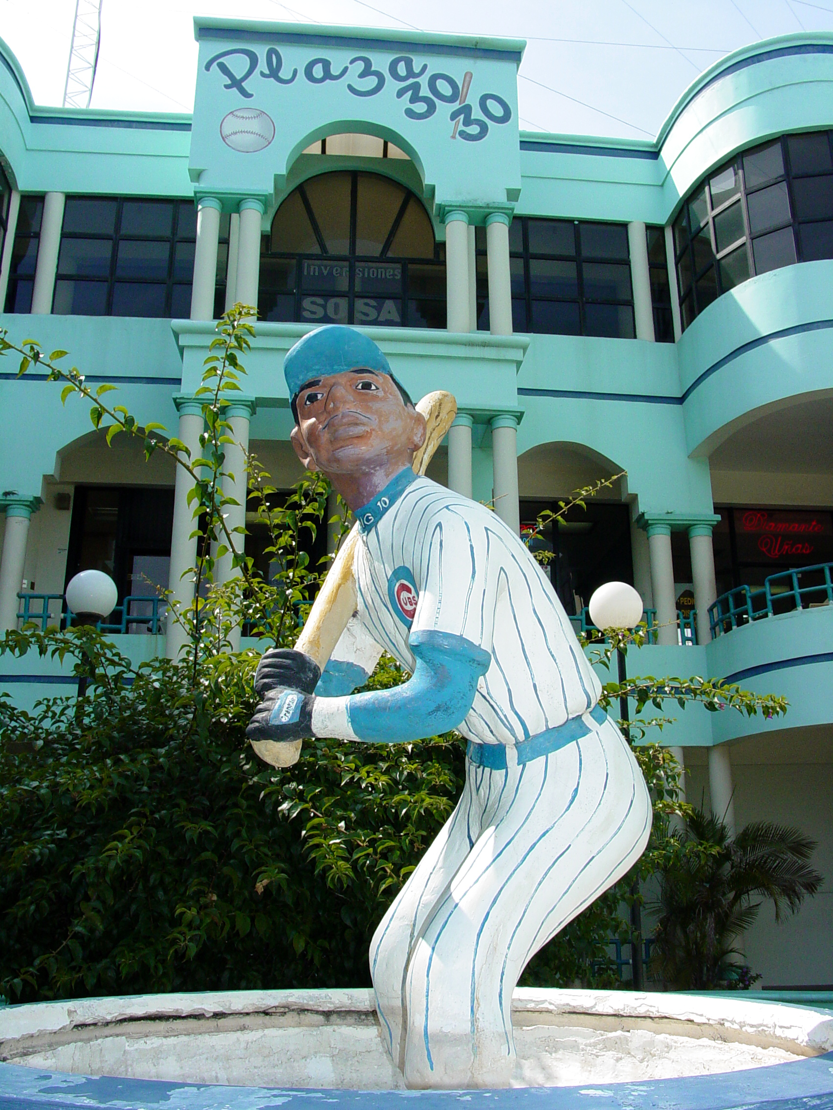 Statue of Sammy Sosa outside the 30-30 Shopping Center - San Pedro de Macoris - Dominican Republic